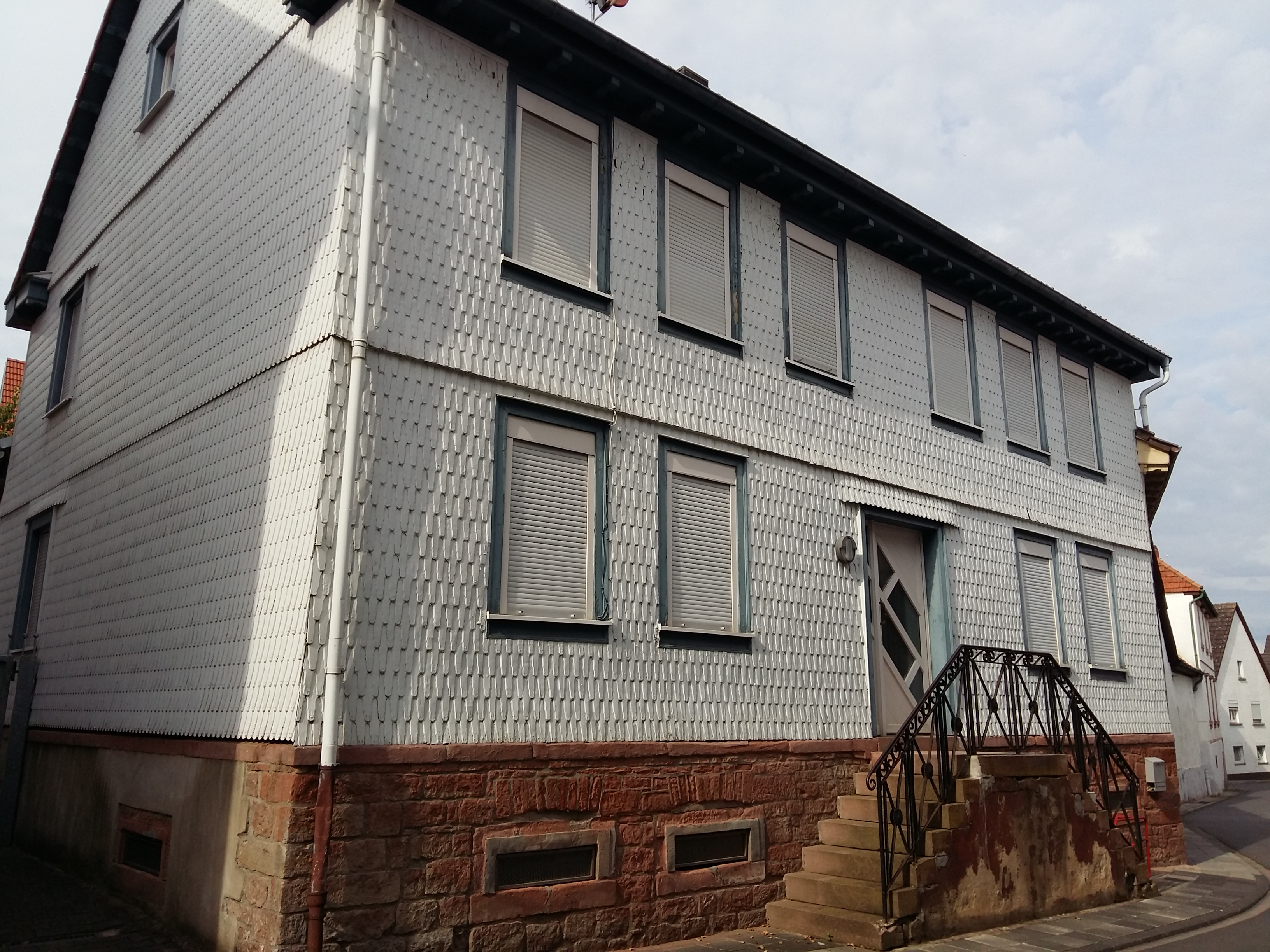 Former Townhall of Semd. Today residential Building Grafenstraße 9 in Groß-Umstadt - Semd